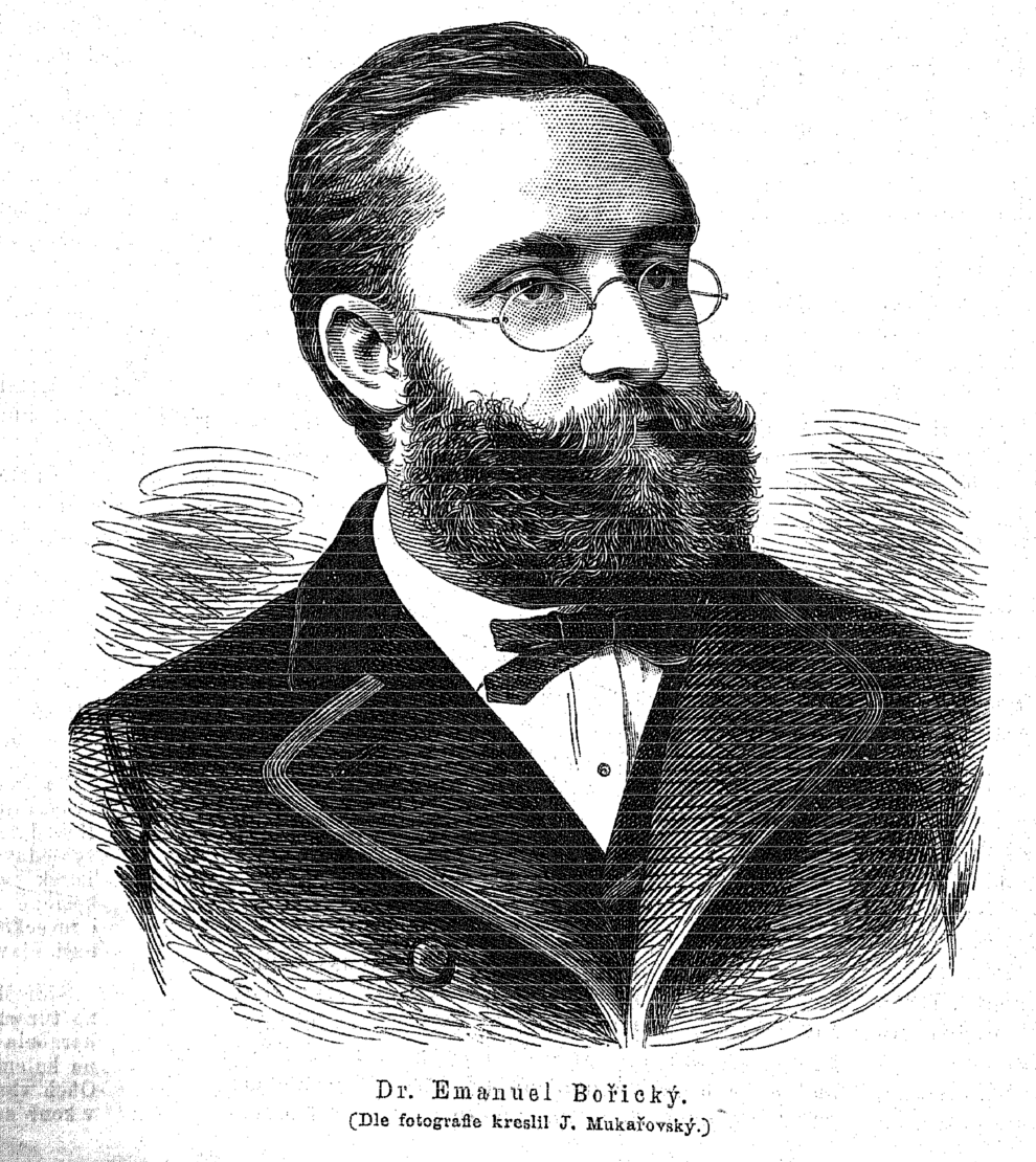 Portrait of Emanuel Bořický, Czech professor of mineralogy and geology.